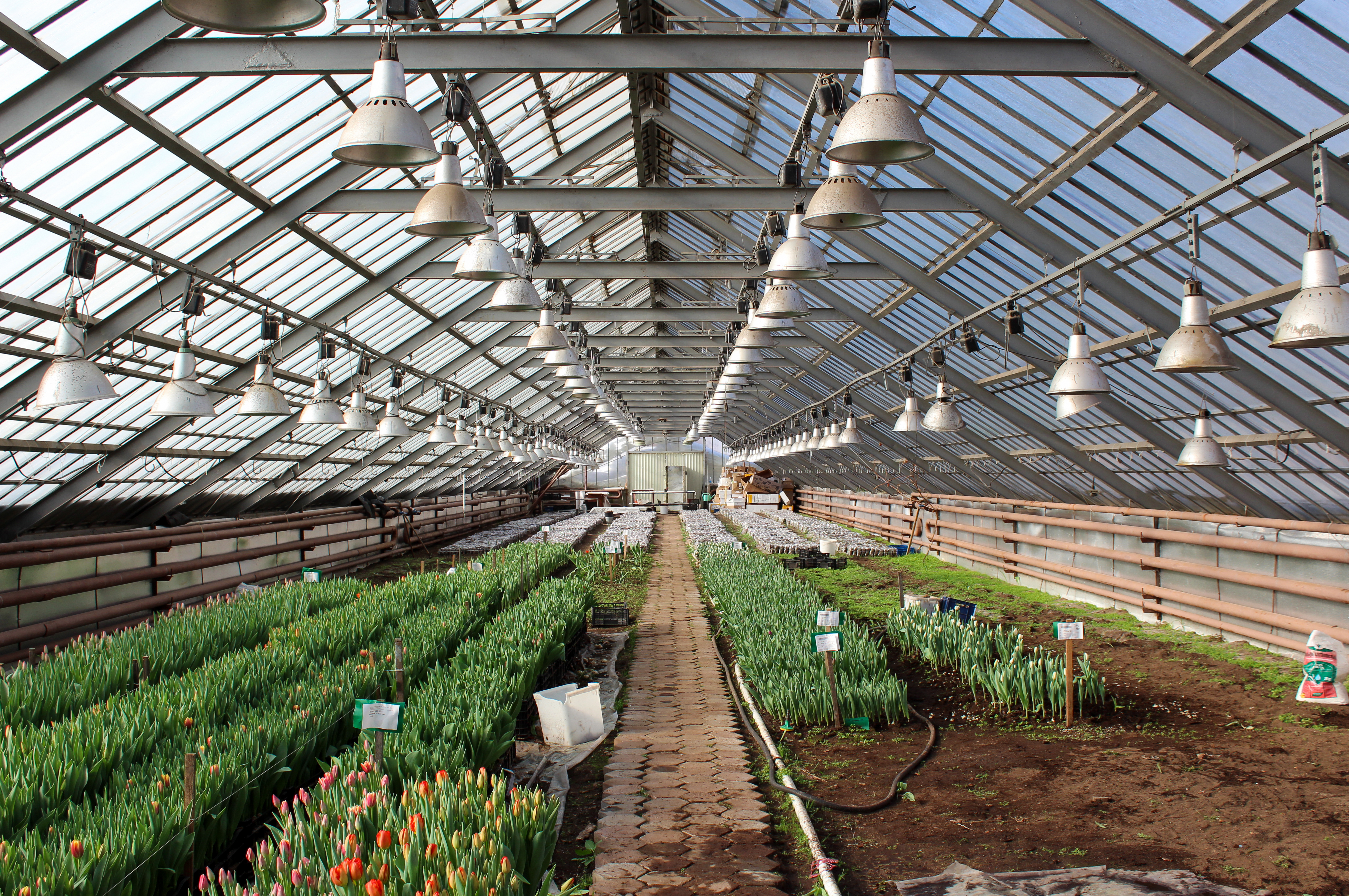 The greenhouse complex annually grows more than half a million flowers. Seedlings decorate flower beds in different areas of Petropavlovsk. The fresh cut of roses and chrysanthemums grown by Mupa specialists are in constant demand among the citizens.